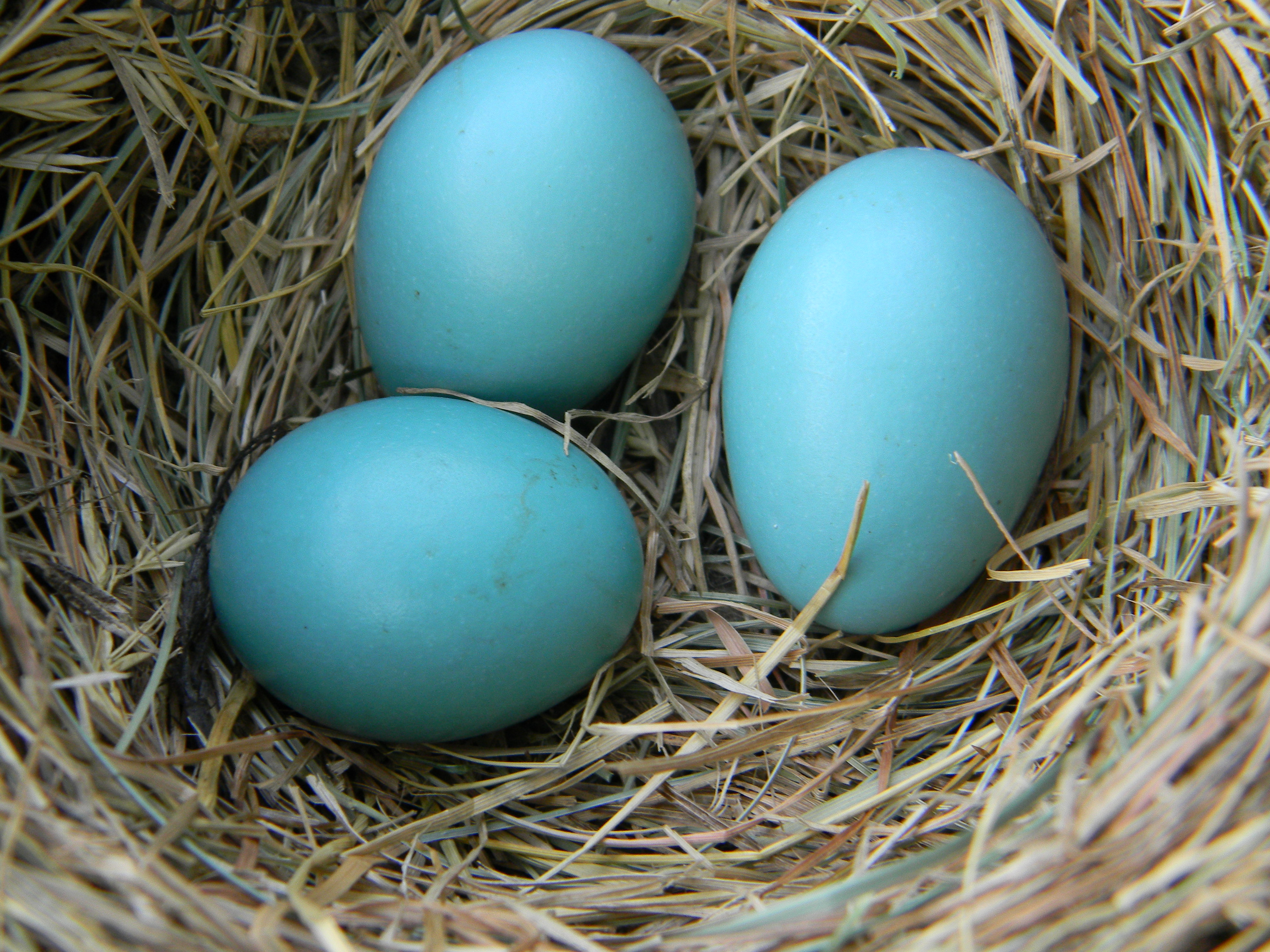 American Robin (Turdus migratorius) Eggs in Nest